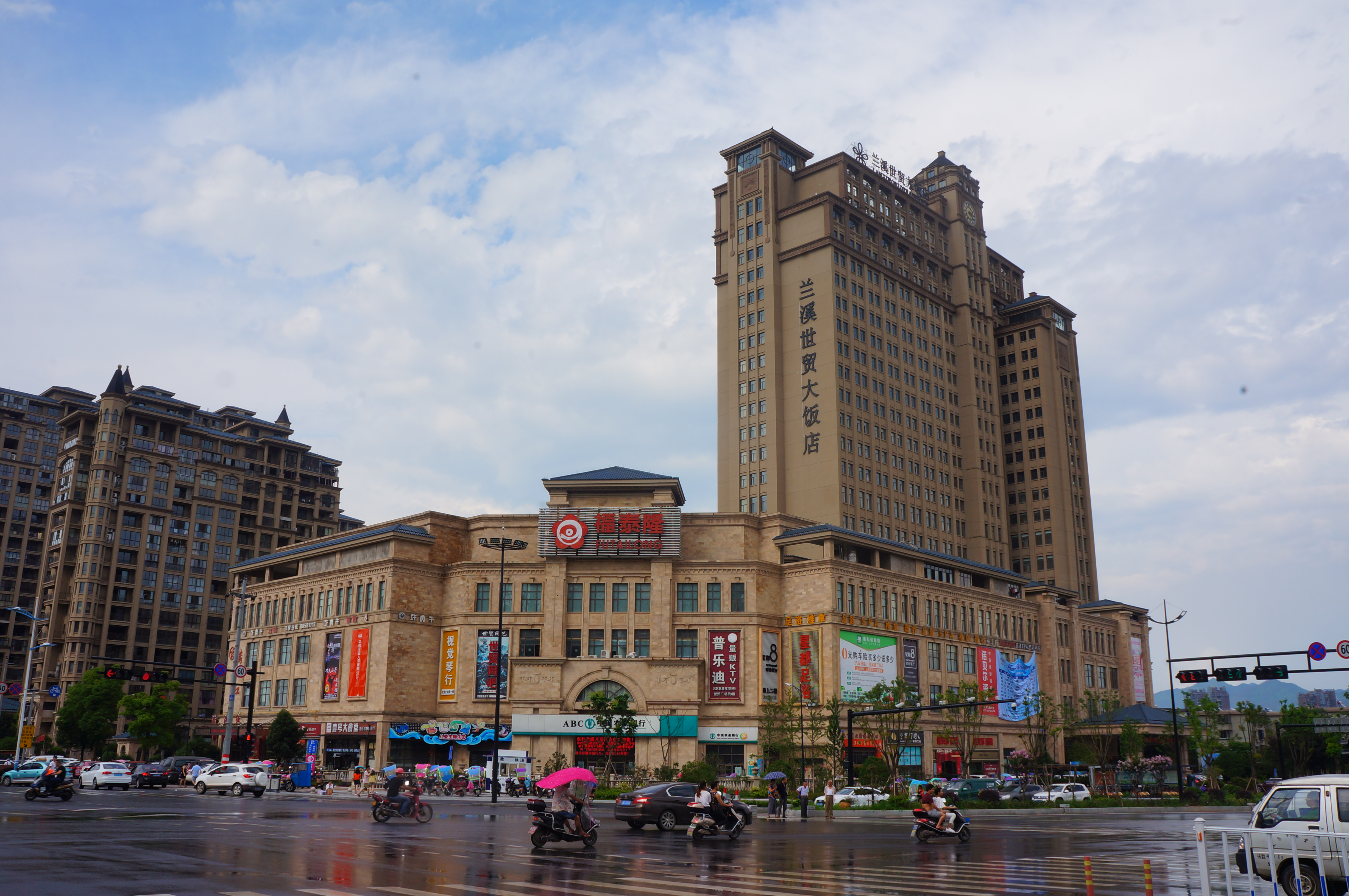 201707 Lanxi Shimao Hotel, with the infamous Futailong Supermarket nearby.